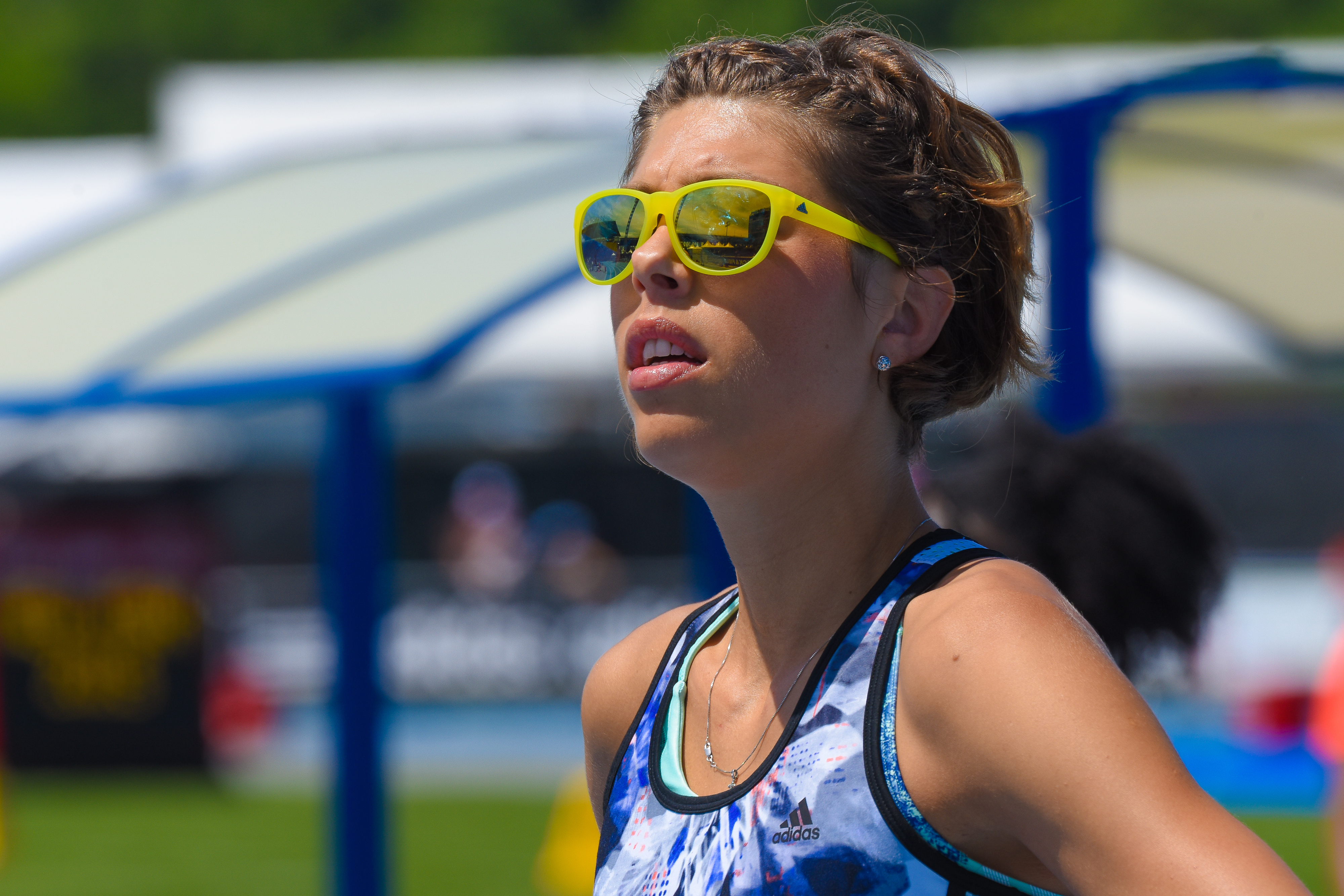 June 13, 2015 Icahn Stadium, Randall's Island New York, NY